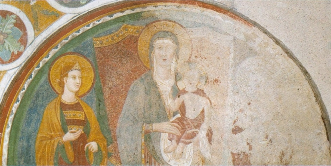 Memmo di Filippuccio. Madonna with Child and Two Saints. Fresco. 1305. Collegiata, San Gimignano.